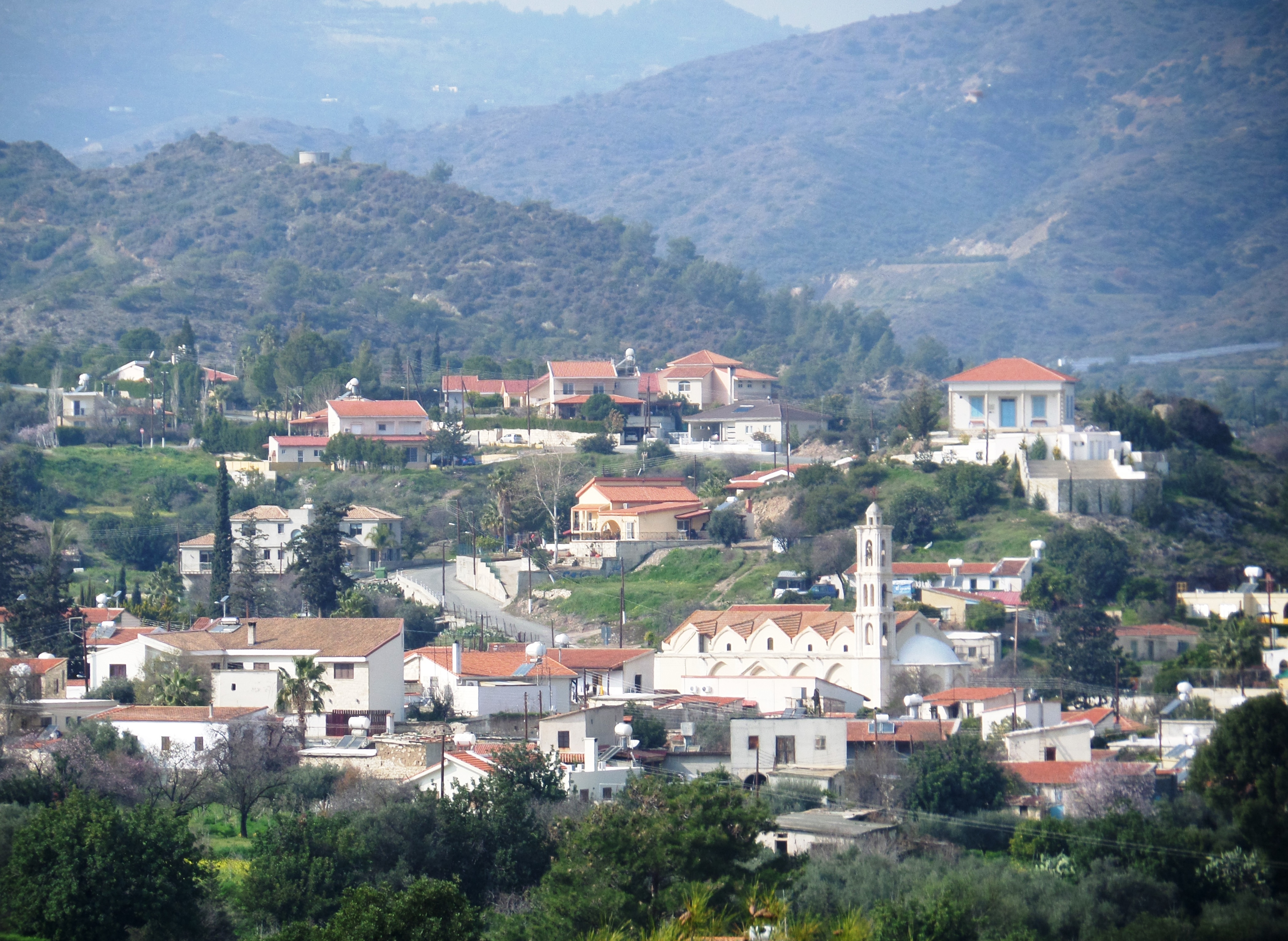 View of Asgata.